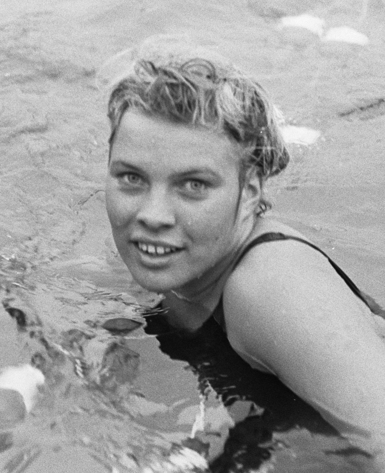 Ineke Tigelaar at international championships